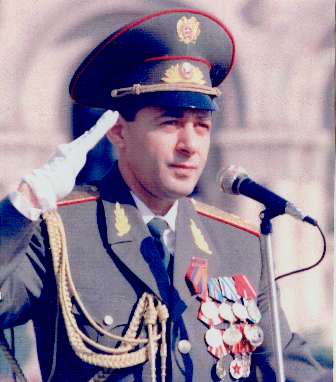 Minister of Defense of Armenia